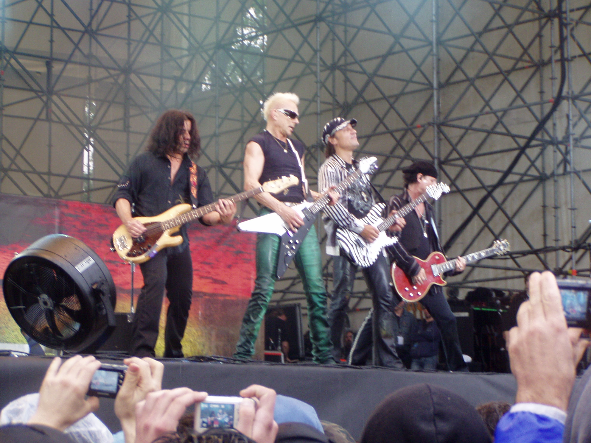 Gli Scorpions al Gods of Metal 2007